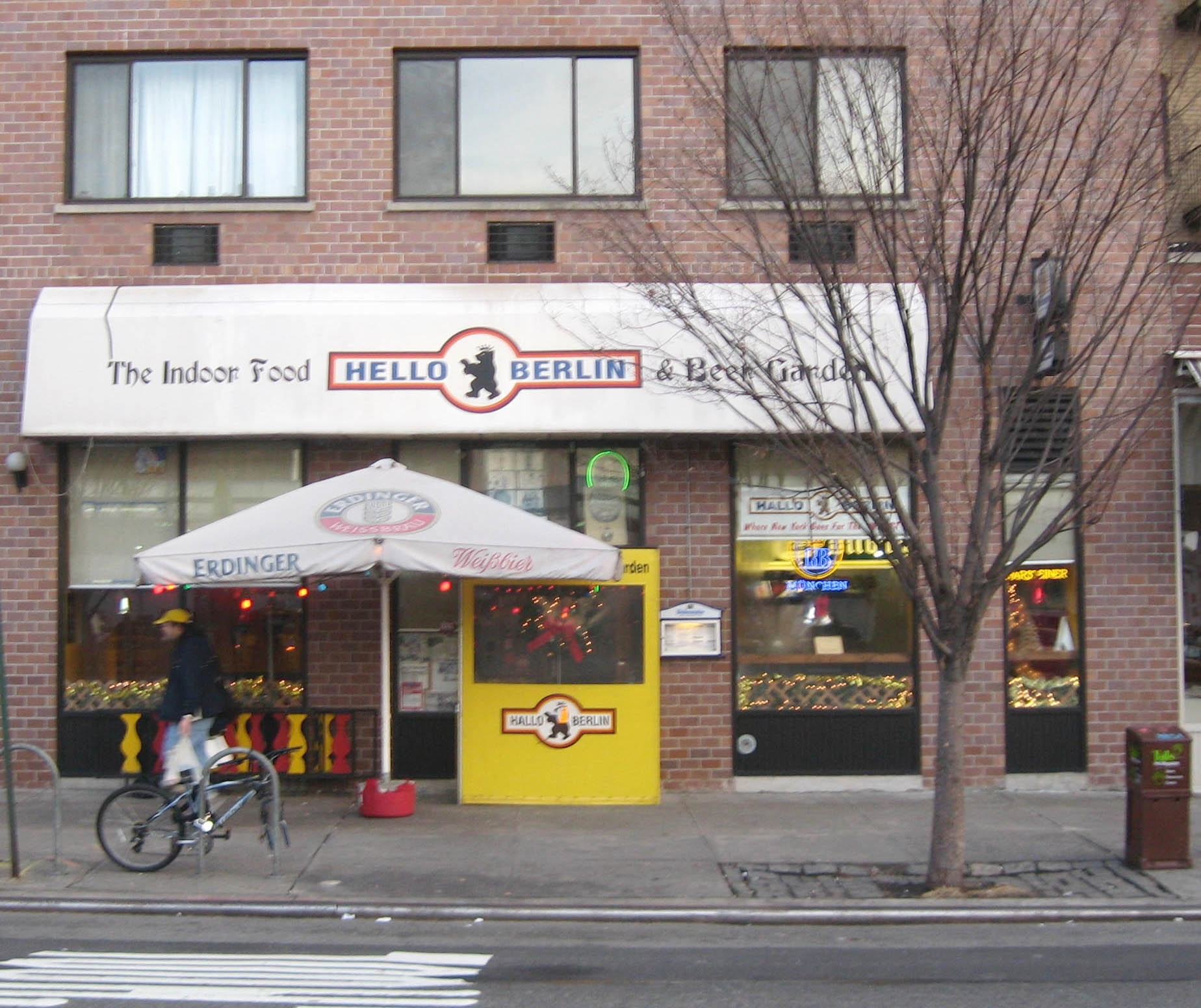 Looking east across 10th Avenue at "Hello Berlin" awning of Hallo Berlin restaurant.